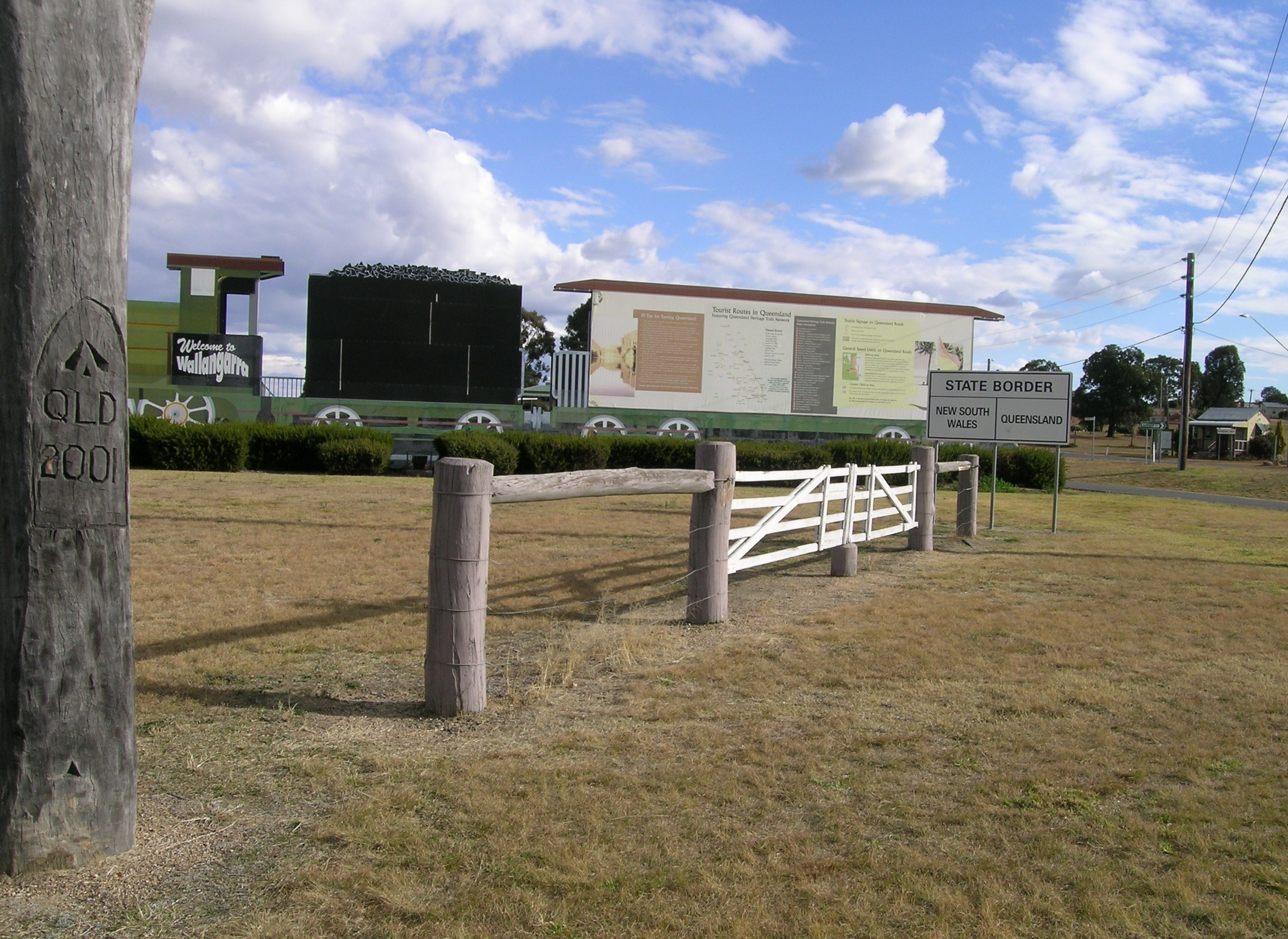 NSW and QLD border "fence" at Wallangarra, QLD